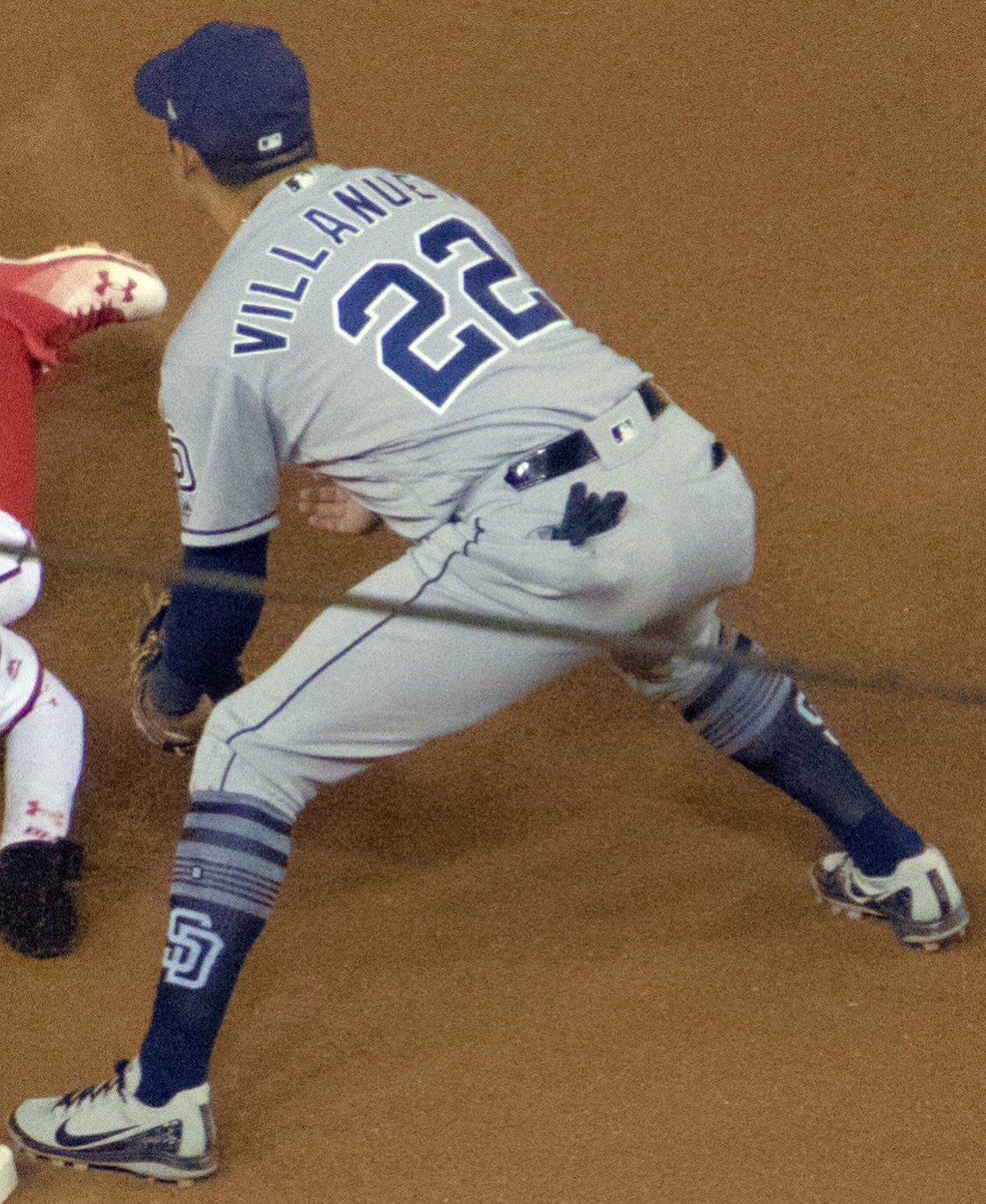 Christian Villanueva